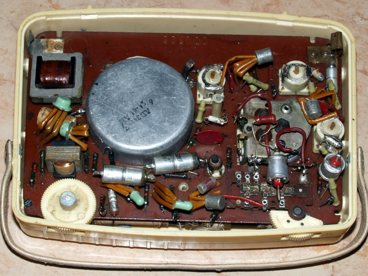 Radio "Czar", manufacturer: "ZRK" (Poland), 1961